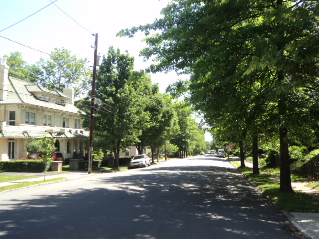 Tree lined Mahantongo Street such as John O'Hara described it in his works, as Lantanengo Street.